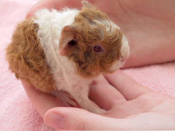 Guinea Pig baby. About 8 hours old.